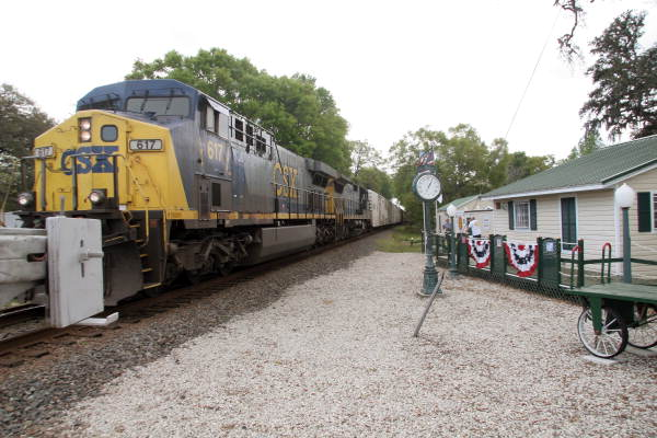 Local call number: dm6136 Title: CSX locomotive 617 passing by the Railside House Museum: Hawthorne, Florida Personal author: Dale McDonald Date: 2006 Physical descrip: 1 digital image; col. Series Title: Dale M. McDonald collection General note: The museum is owned by Ron Kelly and was built to house model trains. Repository: State Library and Archives of Florida, 500 S. Bronough St., Tallahassee, FL 32399-0250 USA. Contact: 850.245.6700. Persistent URL